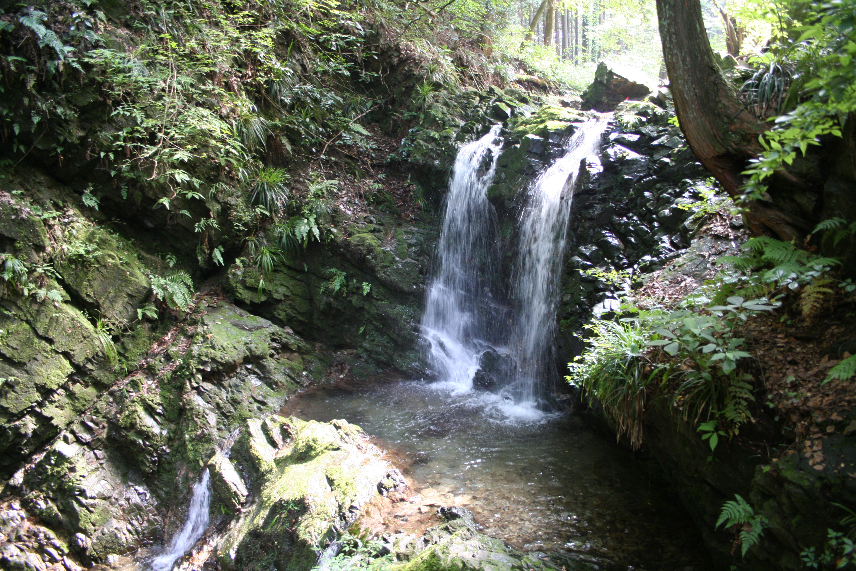 Goshuden-no-taki waterfall in Hachioji castle